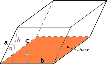 Parallelepipedon with orange base and angles